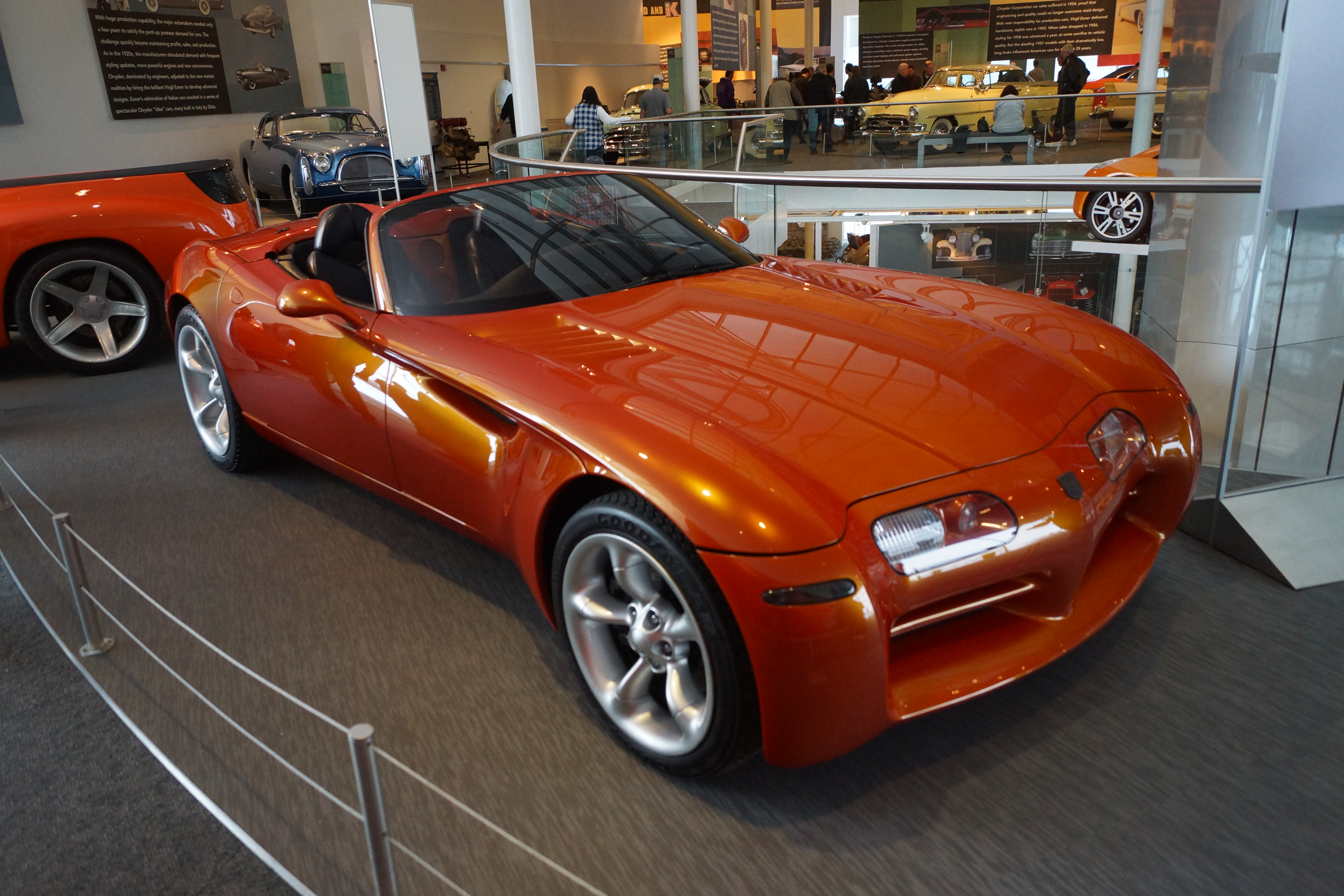 Click here for more car pictures at my Flickr site. Or here for my Car Crazy Tumblr site. Back on November 4th, Hemming's Blog posted an article about the closing of the Walter P. Chrysler Museum . I had missed a couple other opportunities with the WPC Club and others to get into the museum, after it had closed to the public. I did not want to regret missing this last chance to see all of the vehicles before being spread out to other facilities. I trekked from Western Minnesota to Eastern Michigan during Winter Storm Decima. I missed the worst parts of the storm, but still had to endure the aftermath winds, sub zero temperatures and a lake effect snow storm. The trip was difficult, but well worth it. I got to see several Chrysler Corporation concept and show cars that I had only seen pictures of before. There were several clever interactive displays demonstrating various innovations over the years. Since it was the last chance, I duplicated several shots using different camera settings to see what produced better results. I wish I had invested in a strobe light diffuser for all of those indoor pictures. I have not had much experience or success in the past with indoor car images.